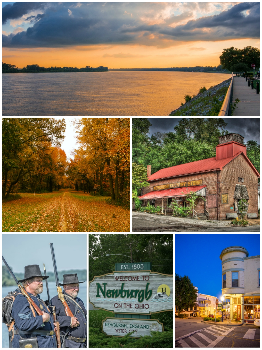 This is a collage of images I took of Newburgh, Indiana